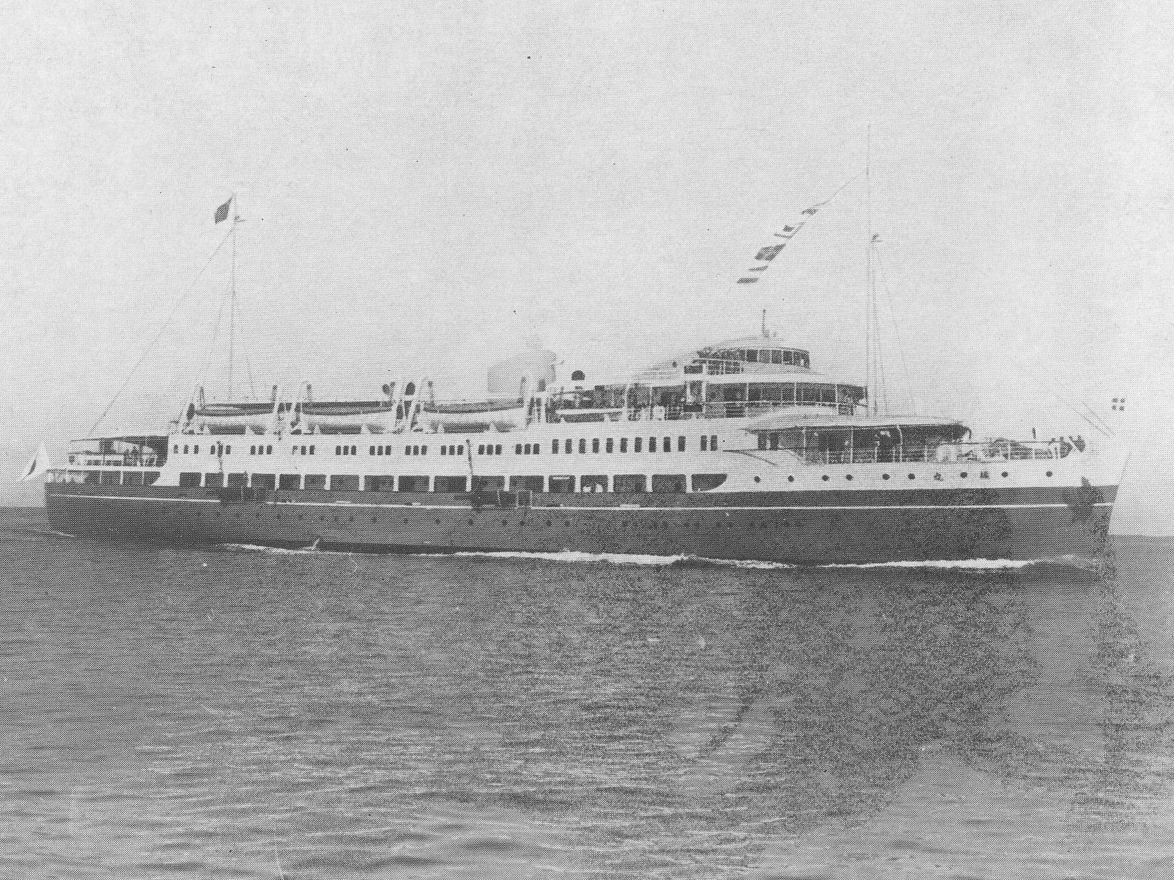 Tokai Kisen "Tachibana Maru". During engaged in military transport with only hospital ship, there is a thing that has been seized in the United States Navy.